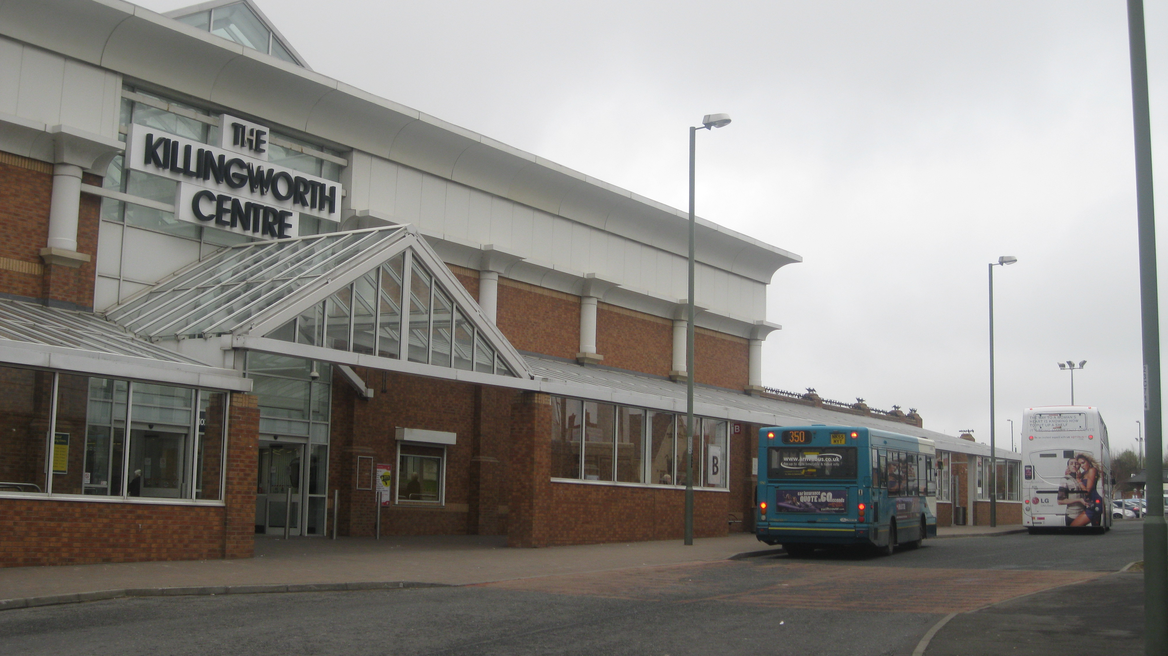 A picture of the Killingworth bus station - March 2011